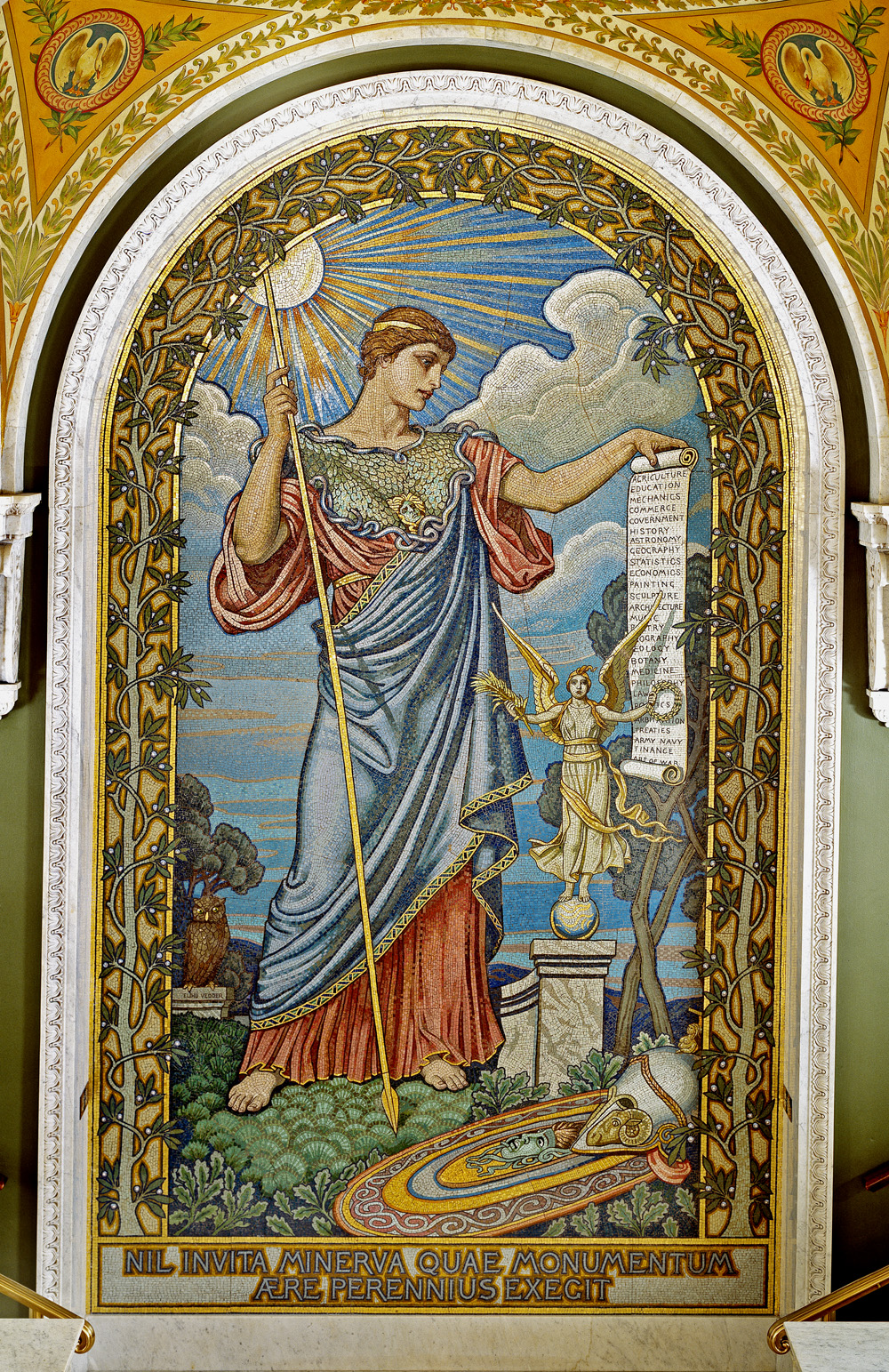 Minerva of Peace by Carol M. Highsmith